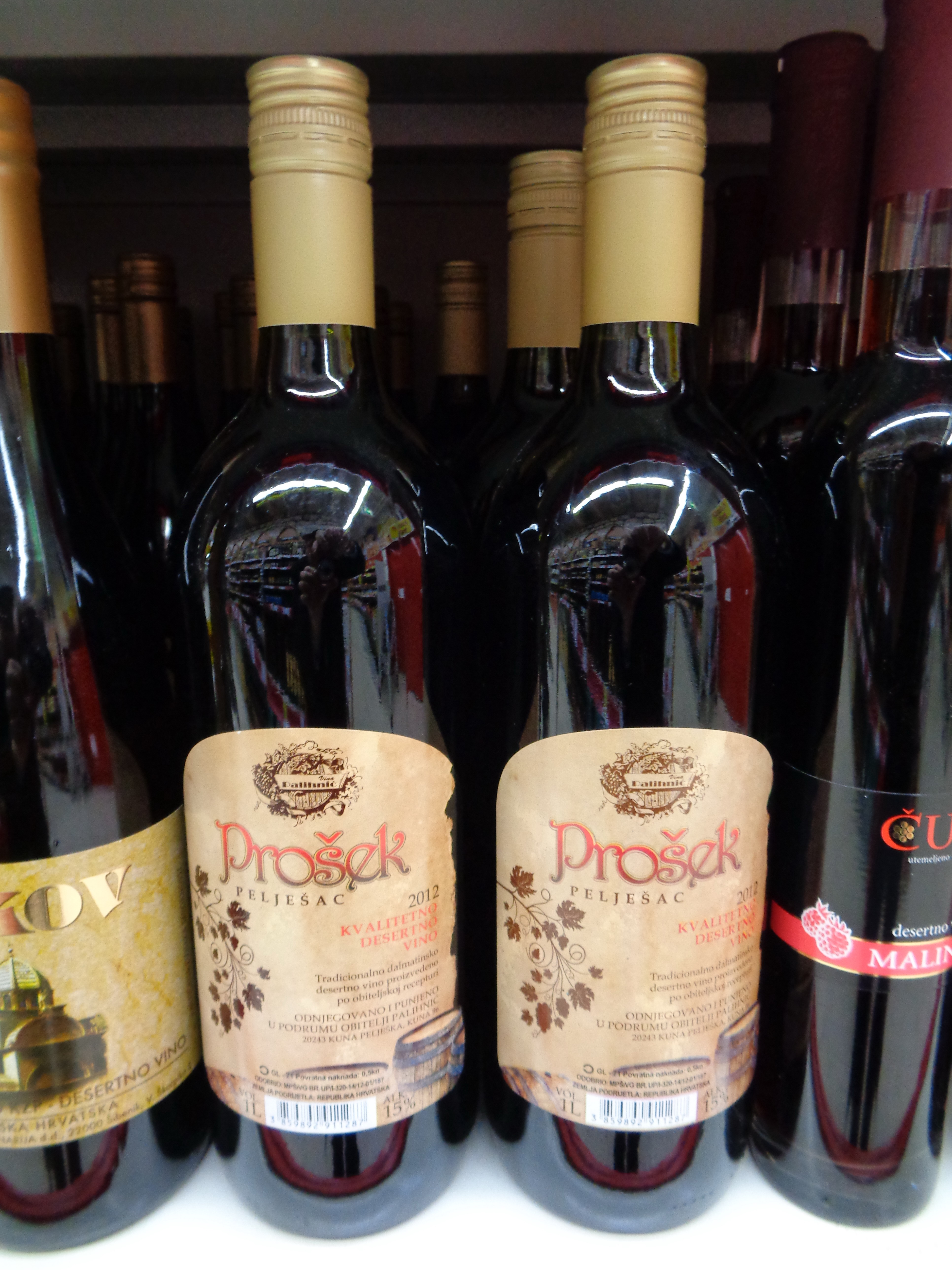 Bottles of Prošek wine, autochthonous sweet dessert wine,(potentially fortified), produced in southern region of Dalmatia, Croatia, on a shelf